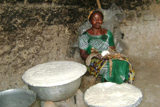 High Risk Loan? – Ama Donkor is married to a farmer and blessed with two children. She has received junior high education. Ama prepares 'Fante kenkey' (boiled maize dough) and distributes it to her customers for sale at Abura. She has been selling 'Fante kenkey' for some time now. Ama uses her income she acquires from the sale of her 'kenkey' to help her husband in taking care of the family. – Ama will use the new loan to purchase more bags of maize to prepare her 'kenkey' to distribute to her increasing customers. With the new profits from her expanded business, Ama plans to save to establish a 'kenkey' factory.